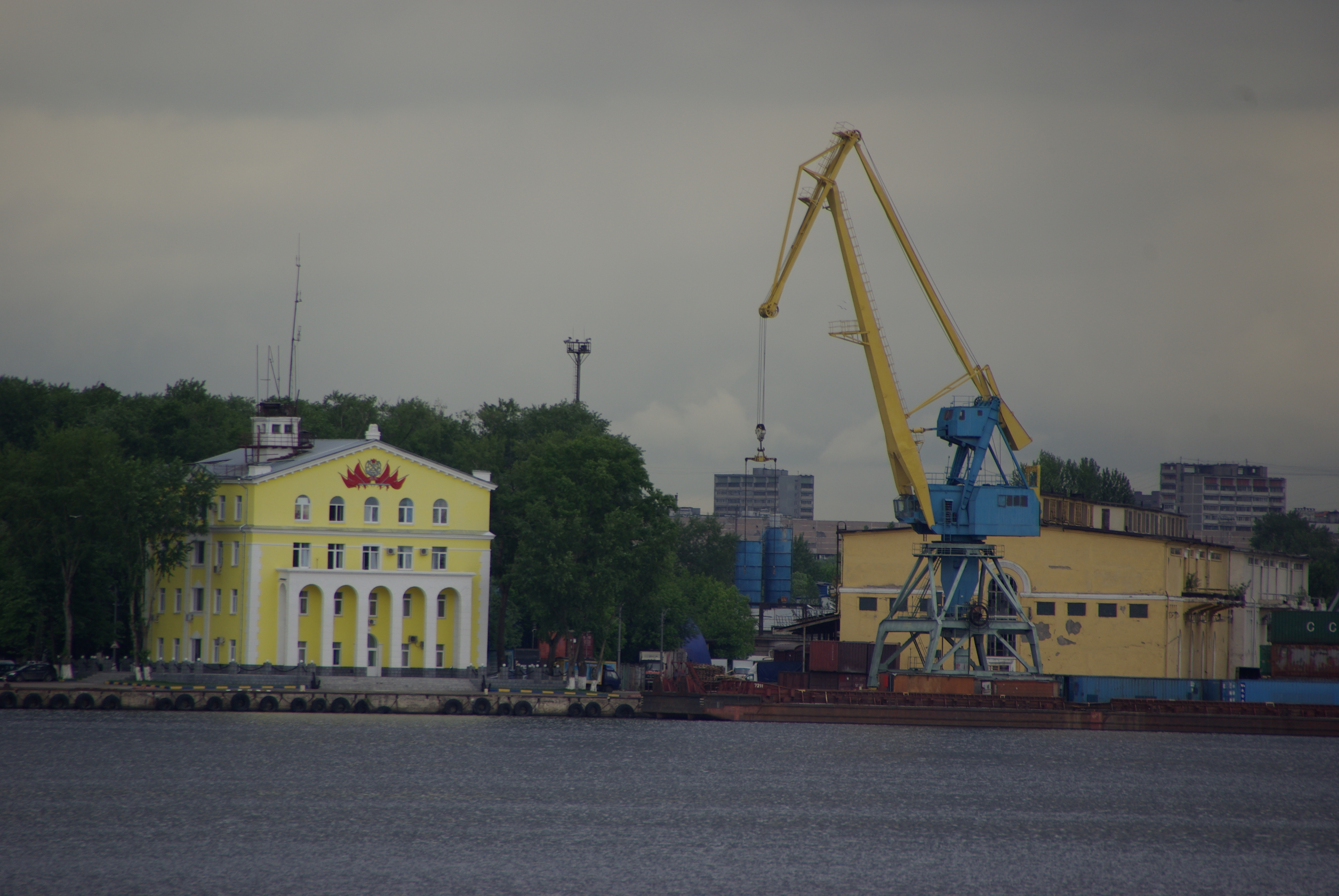 The former South River Port building along the Moskva River - Yuzhnoportovy District, Moscow, Russia